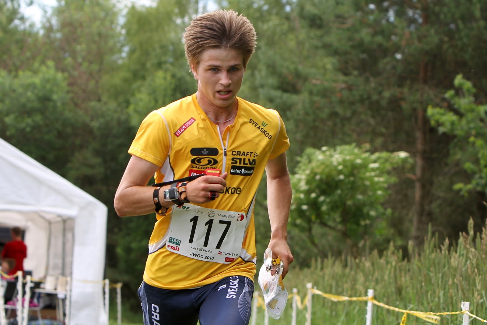 Jonas Leandersson (SWE) at Junior Orienteering Championships 2010